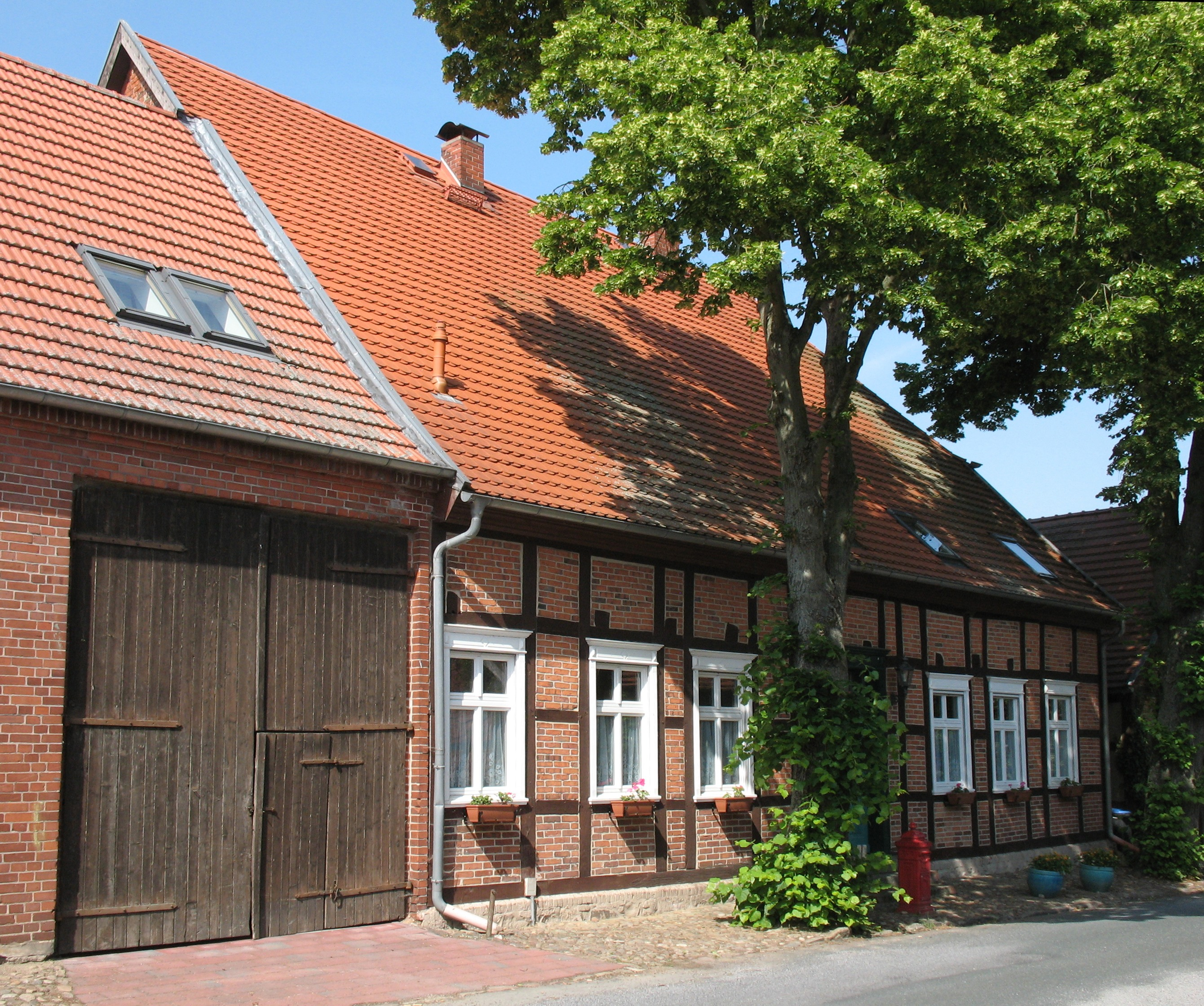 Listed building in Lenzen-Breetz in Brandenburg, Germany